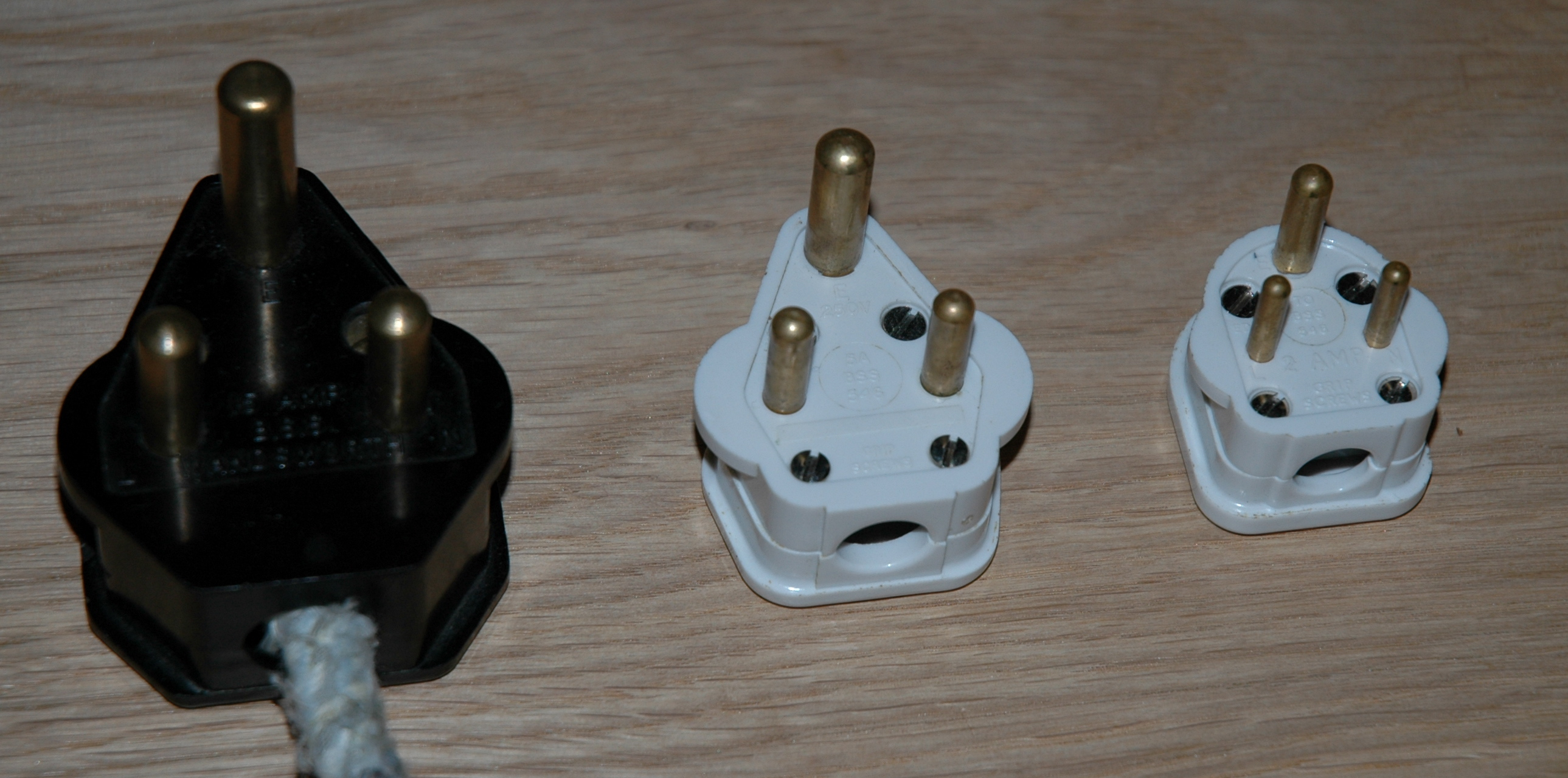 BS 546 3 pin plugs. 15A, 5A and 2A lined up next to each other. Andrew Morgan, 2005.